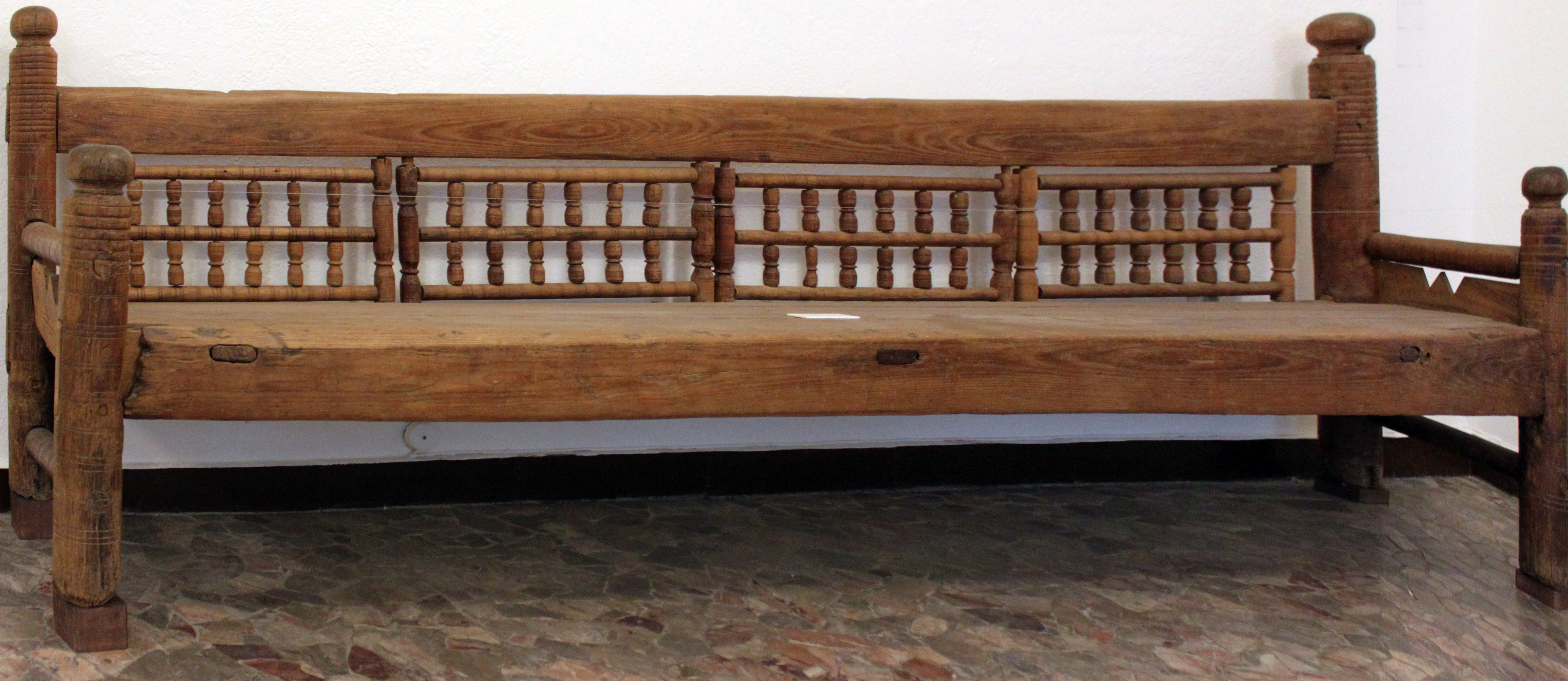 Bank of the Berlin court porch, 13 Century; Märkisches Museum Berlin. So-called sinners Bank; oldest surviving piece of furniture in Berlin